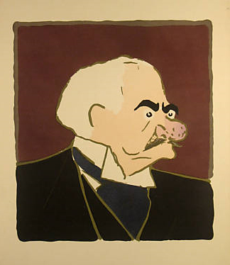 Caricature of John Pierpont Morgan in the album "Monte Carlo"